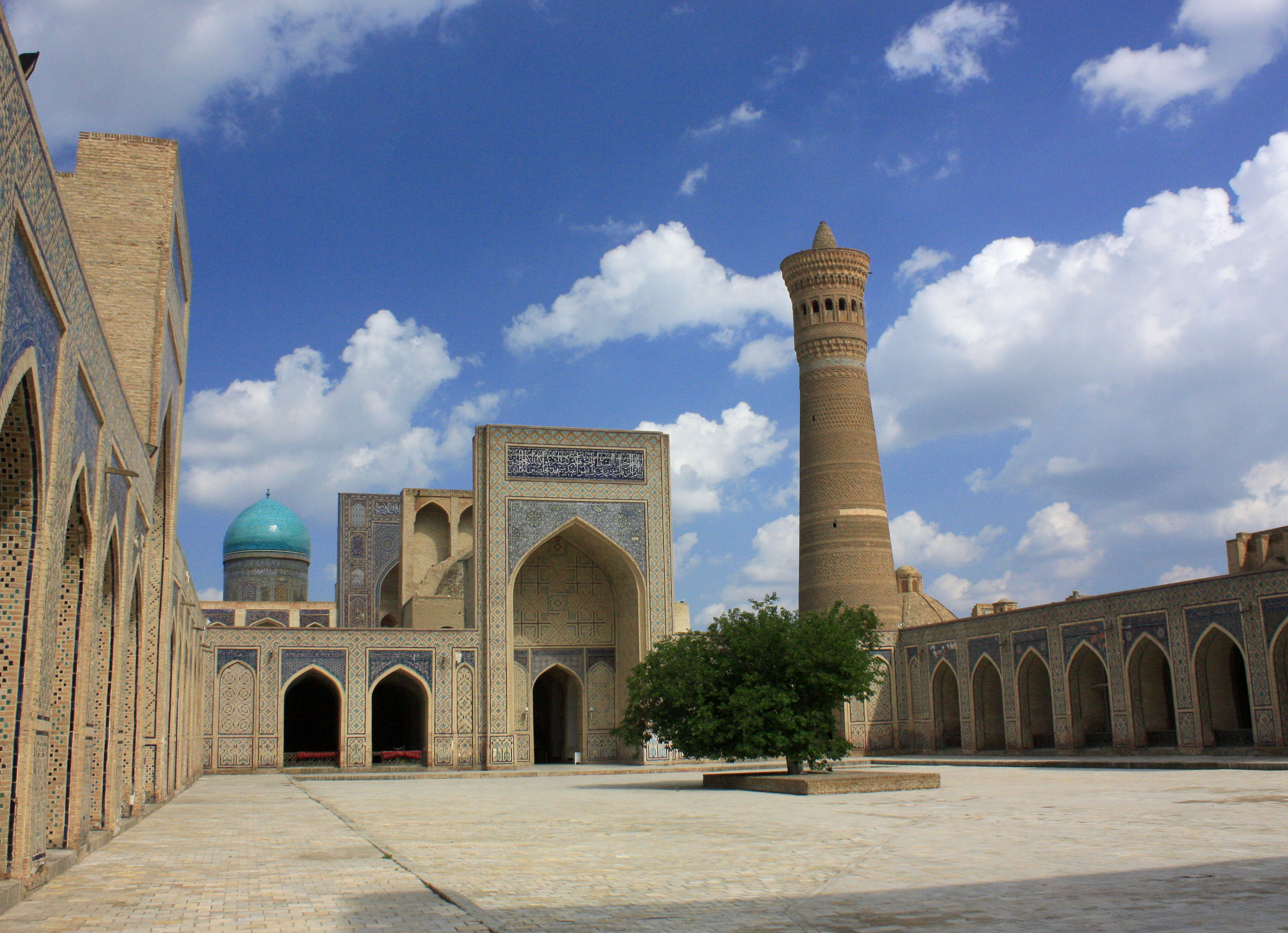 A view of the Po-i-Kalyon complex in Bukhara, Uzbekistan.